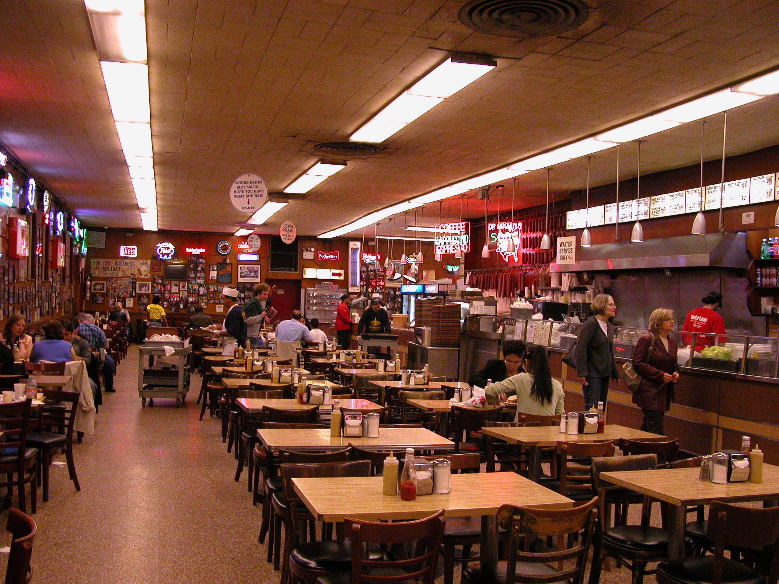 Katz's interior. Already famous long before Meg Ryan faked an orgasm here and "I'll have what she's having" became a mantra.katzdeli_04.JPG